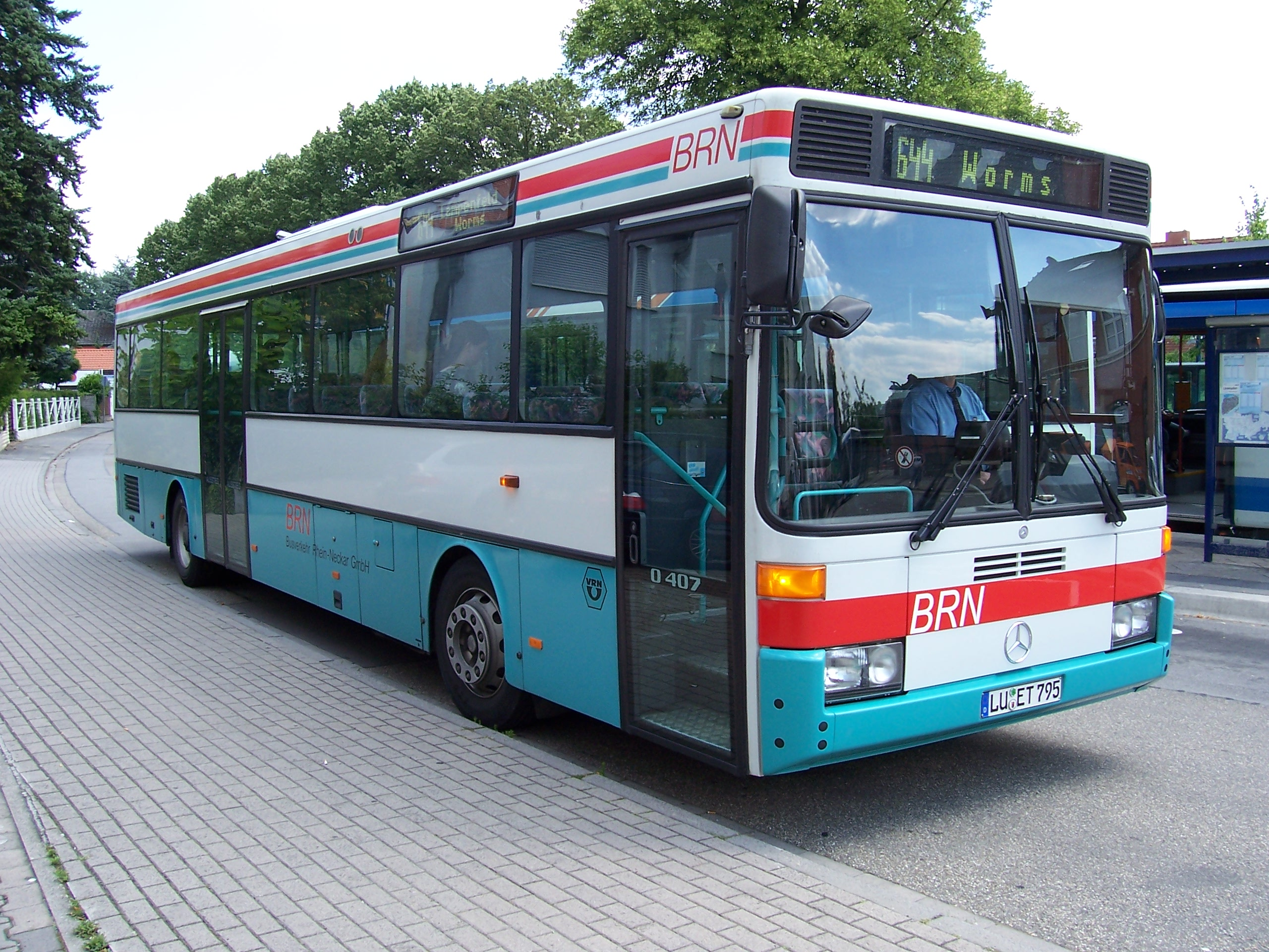 Mercedes-Benz O 407 bus owned by BRN (Busverkehr Rhein-Neckar) in Viernheim, Germany. My own photo taken 13-jul-2005